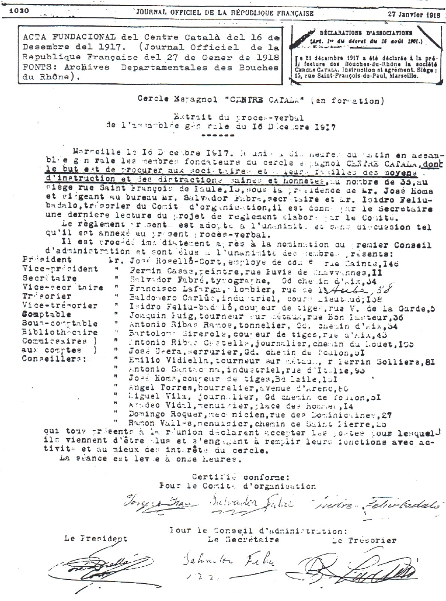 Minutes of first General Assembly of "Cercle Català de Marsella" (December 16th., 1917) and publication in "Journal Officiel de la République Française" (January, 27th., 1918).